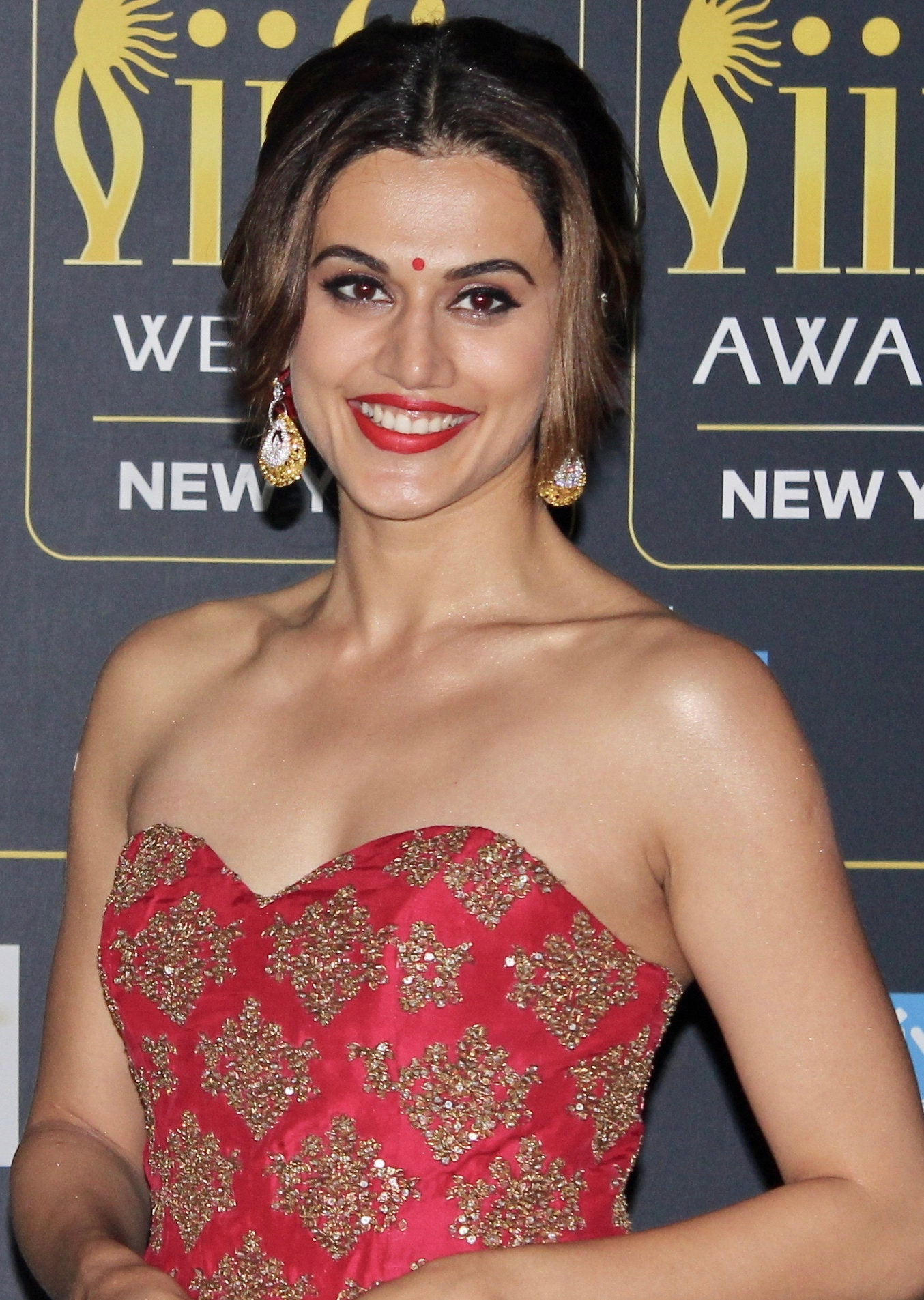 International Indian Film Academy awards "IIFA Rocks" Green Carpet; (MetLife Stadium) in East Rutherford, New Jersey #IIFA2017 #IIFA